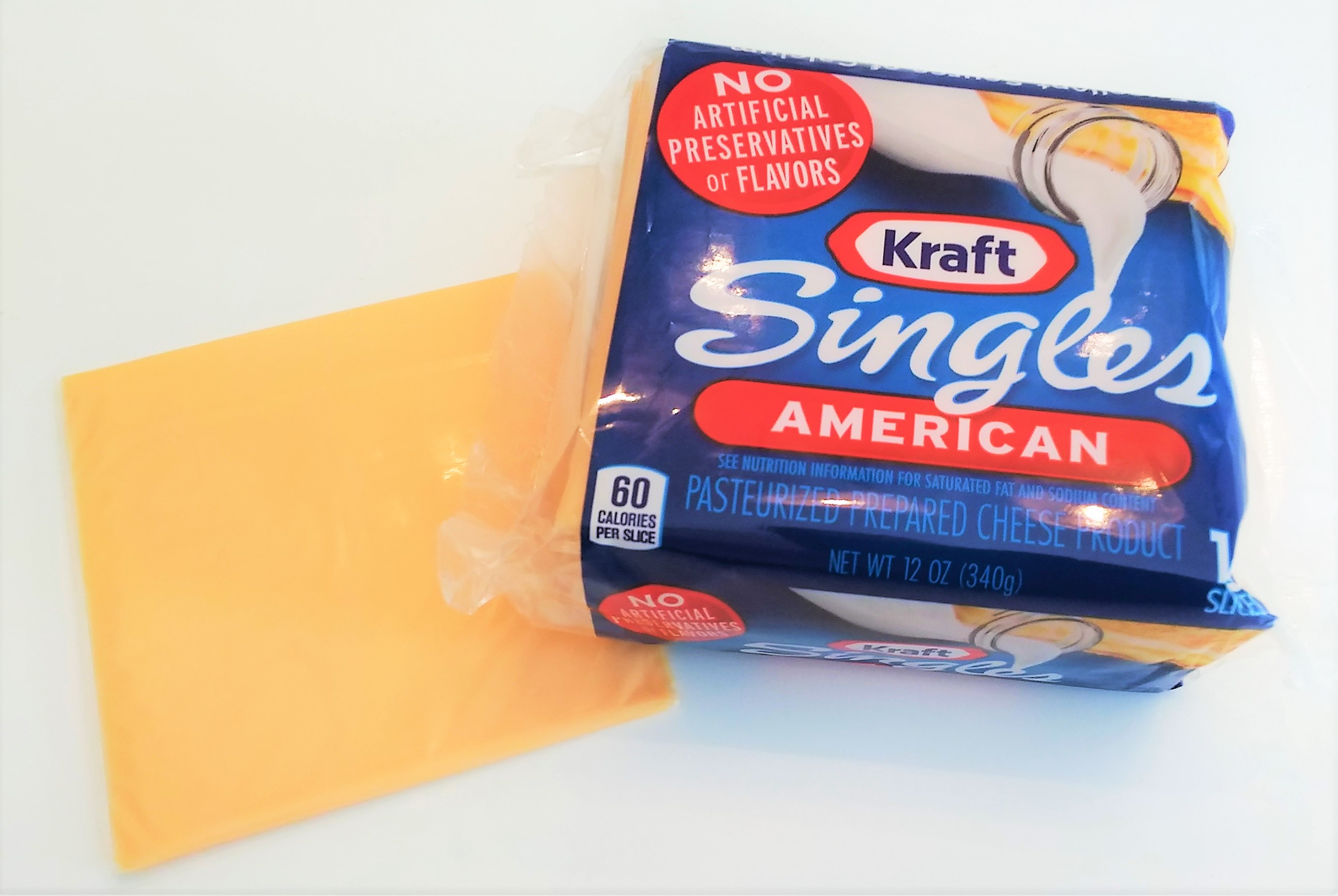 A package of Kraft Singles along with an individual slice.